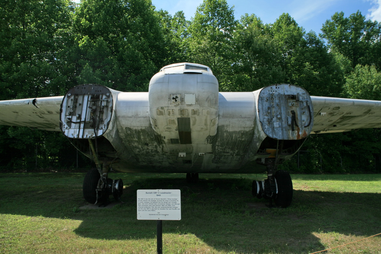 Burnelli CBY-3 Loadmaster - The CBY-3 was the last of Vincent Burnelli's "lifting fuselage" aircraft wherein the fuselage assisted the wing in providing lift. A prolific designer, he believed that his design was stronger, safer and more efficient than conventional designs, and although eight prototypes were built between 1923 and 1945, none achieved production.